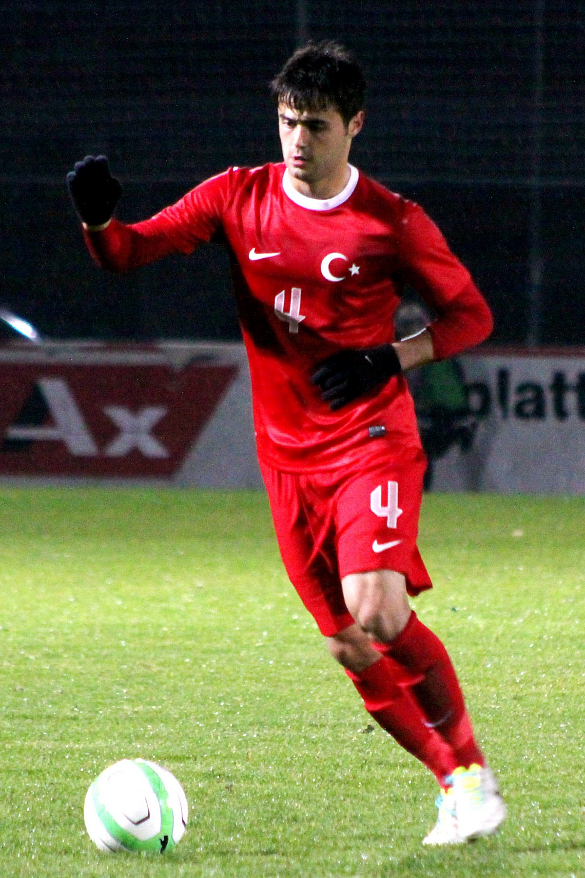 Friendly-match Austria U-21 vs. Turkey U-21 (2:0) on 2013-11-14 in Wiener Neudorf. – The photo shows Ahmet Yılmaz Çalık (Gençlerbirliği Ankara, Turkey).